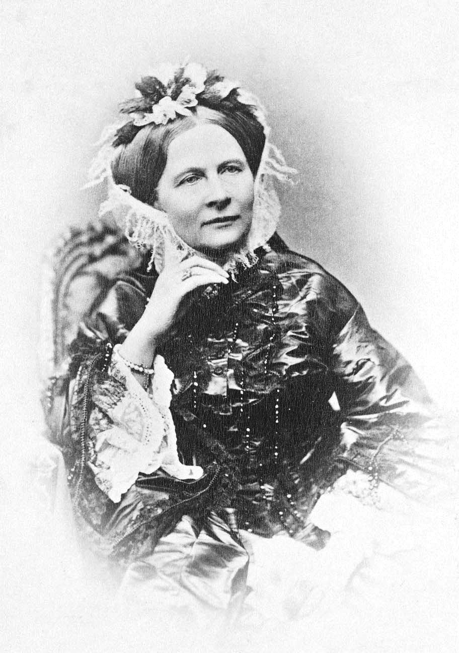 The Grand Duchess Helena of Russia, 1872. [Album: Photographs. Royal Portraits, vol.51]